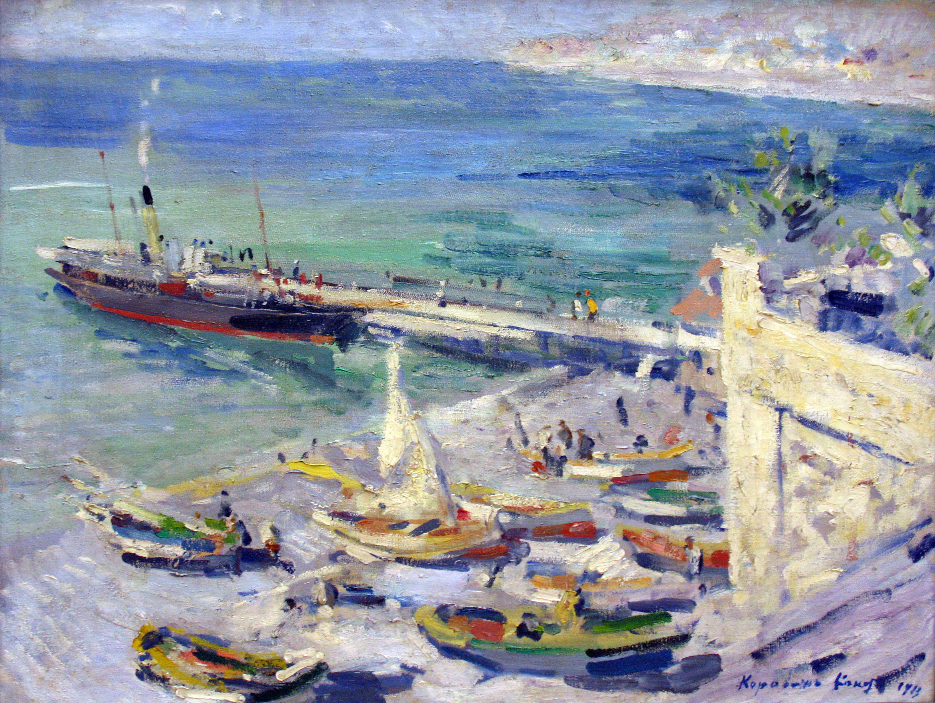 A Quay in the Crimea